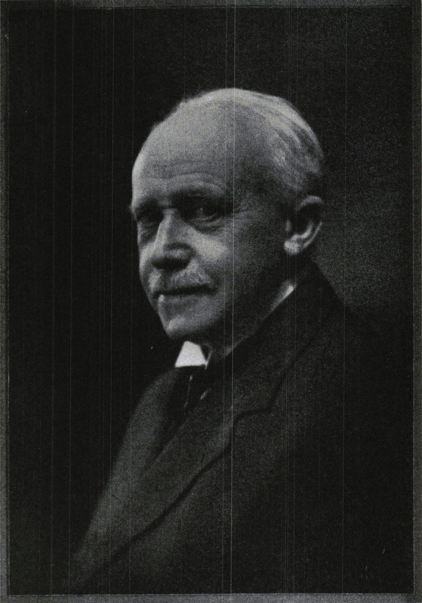 Victor Madsen, a librarian.